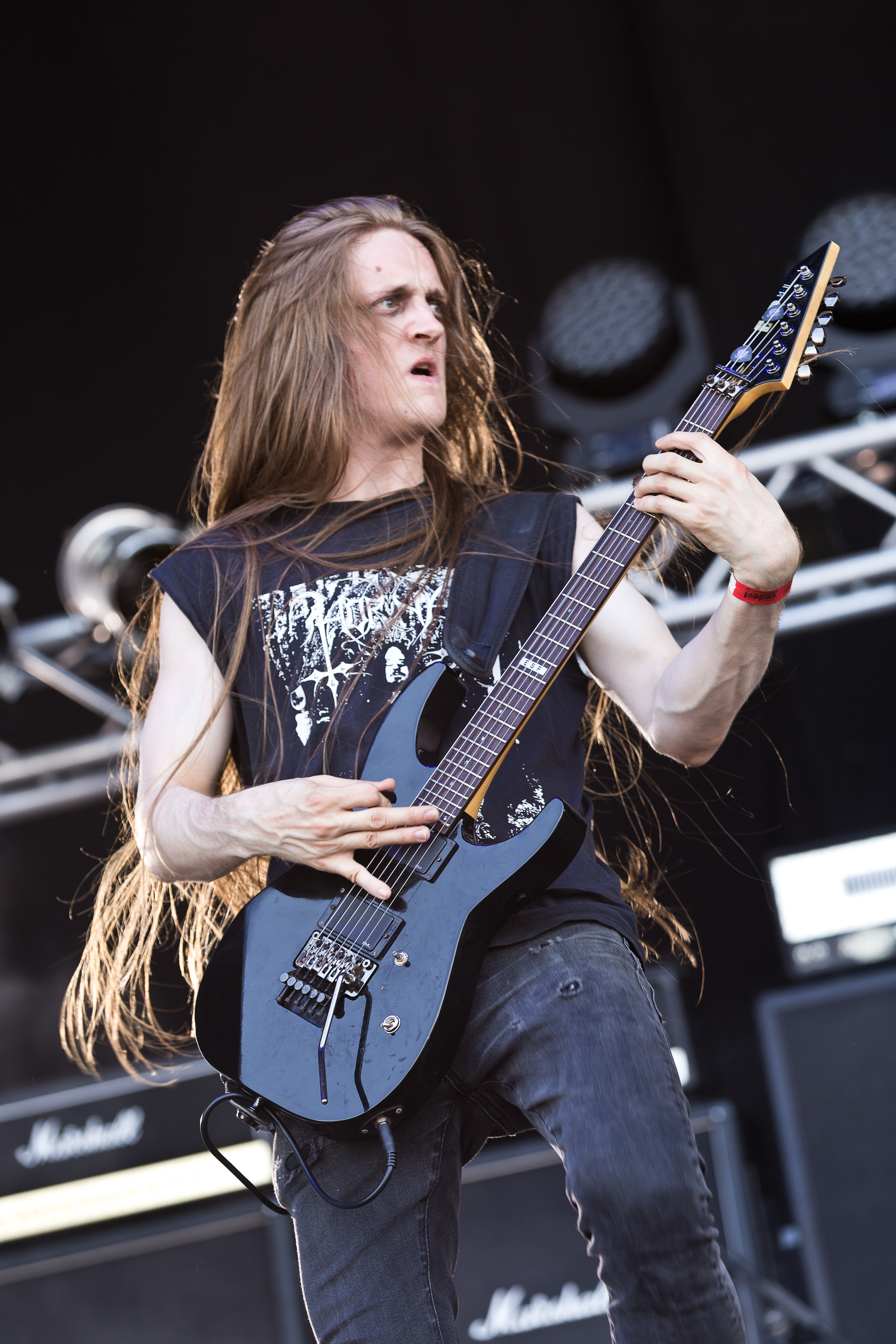 The Norwegian black metal band Aeternus at the Party.San Open Air 2015 in Obermehler-Schlotheim/Germany.